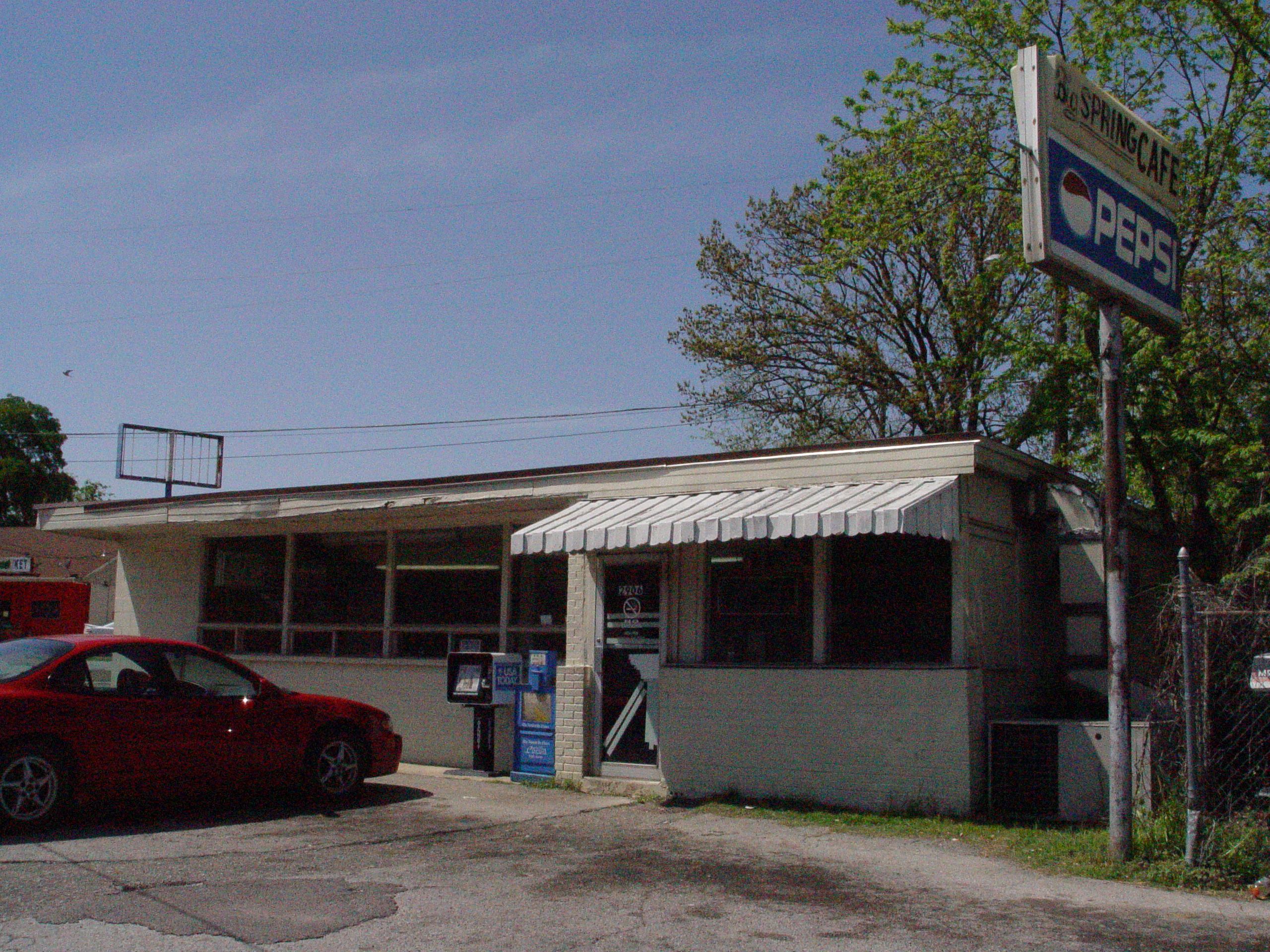 Photo of the Big Spring Cafe in Huntsville, Alabama on April 16, 2011.